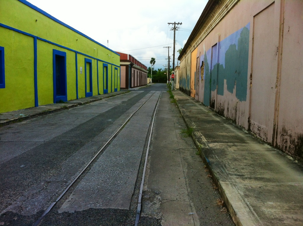 Old tram tracks in Calle Bonaire (previously Calle Comercio) in Playa, Ponce, Puerto Rico